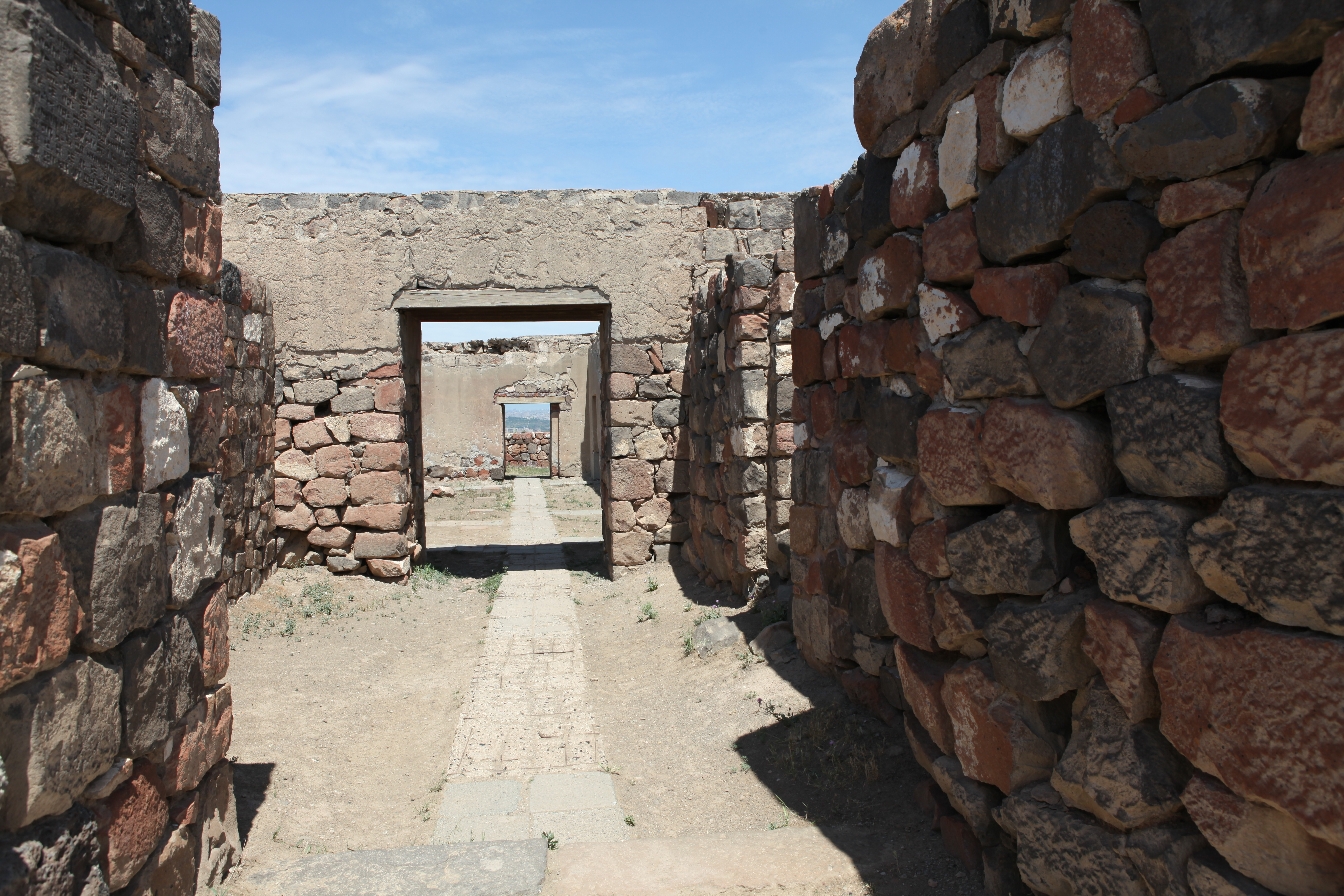 Erebuni Fortress